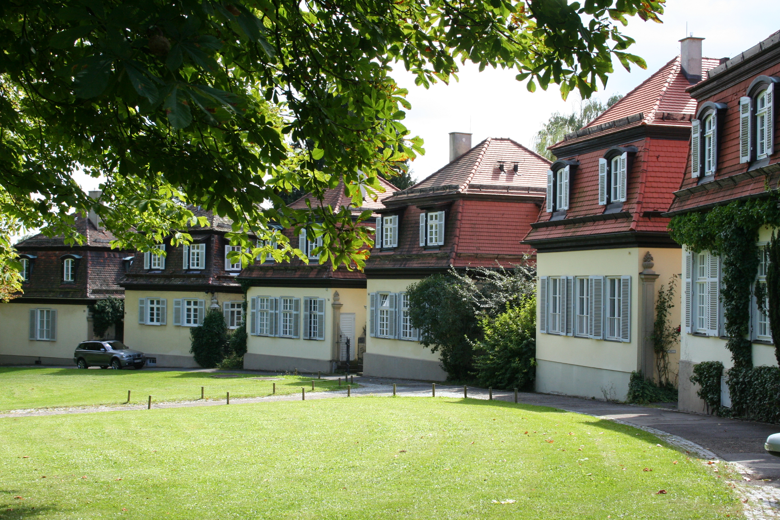 Castle Solitude, Stuttgart, Germany, side houses